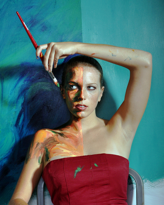 Portrait photograph of Alexa Meade in a self portrait.